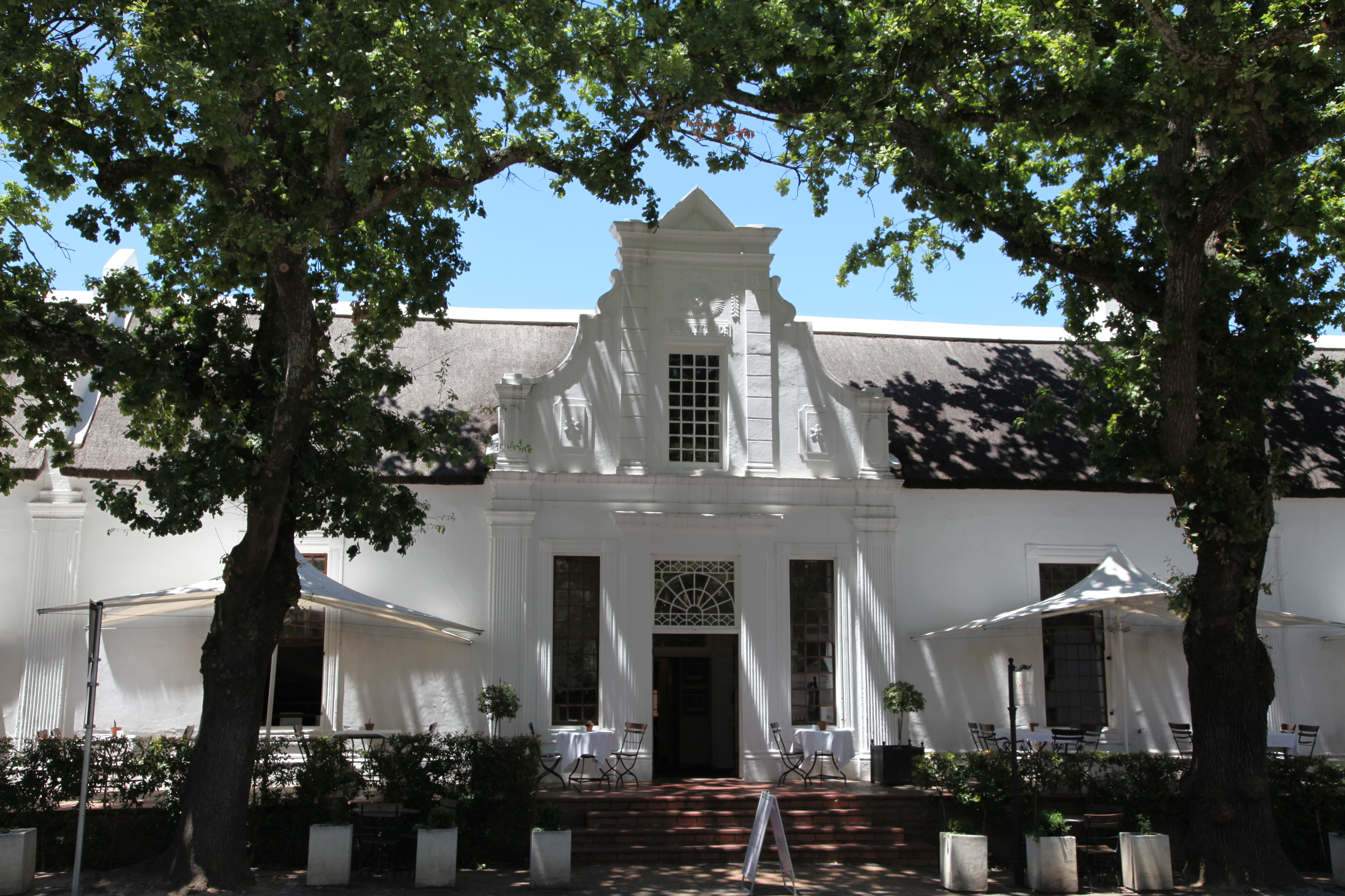 This house at 95 Dorp Street, Stellenbosch, is called La Gratitude and was built by Meent Borcherds and completed in 1798.